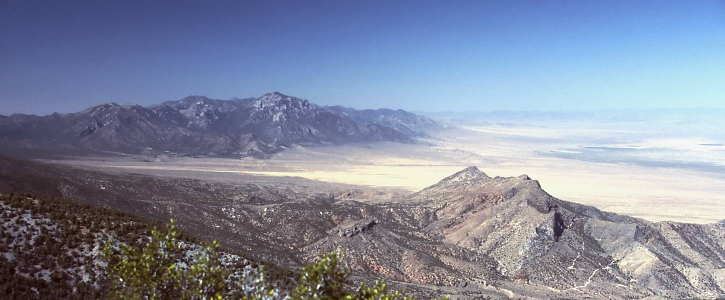 The Quinn Canyon Range (upper left), looking southwest from a spur ridge below Troy Peak. The central part of Railroad Valley is visible at right.